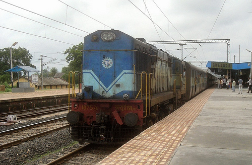 DikshaBhoomi Express At GDYA